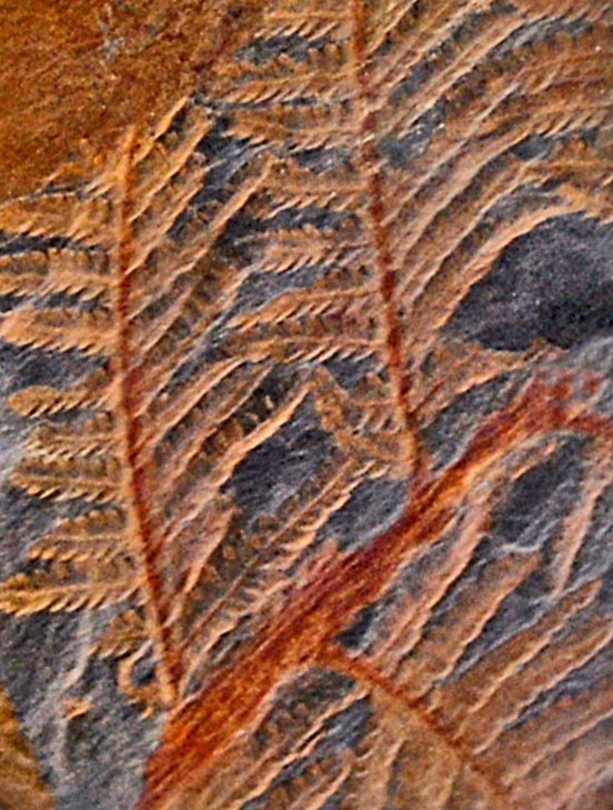 Cropped image of taxon in file name